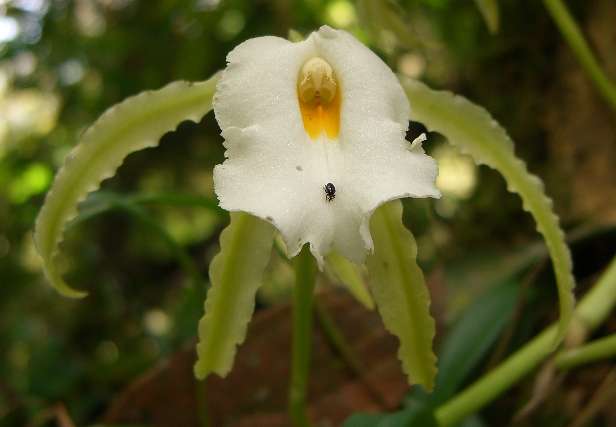 Please report references to .